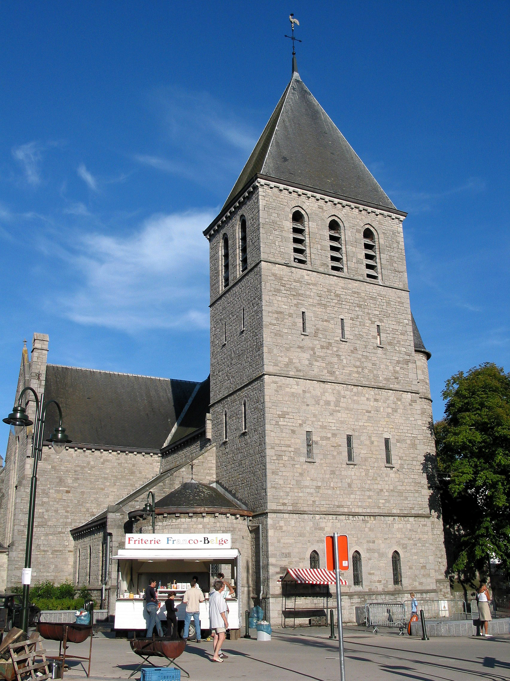 Han-sur-Lesse (Belgium), the St. Hubert Church (1904-1905).